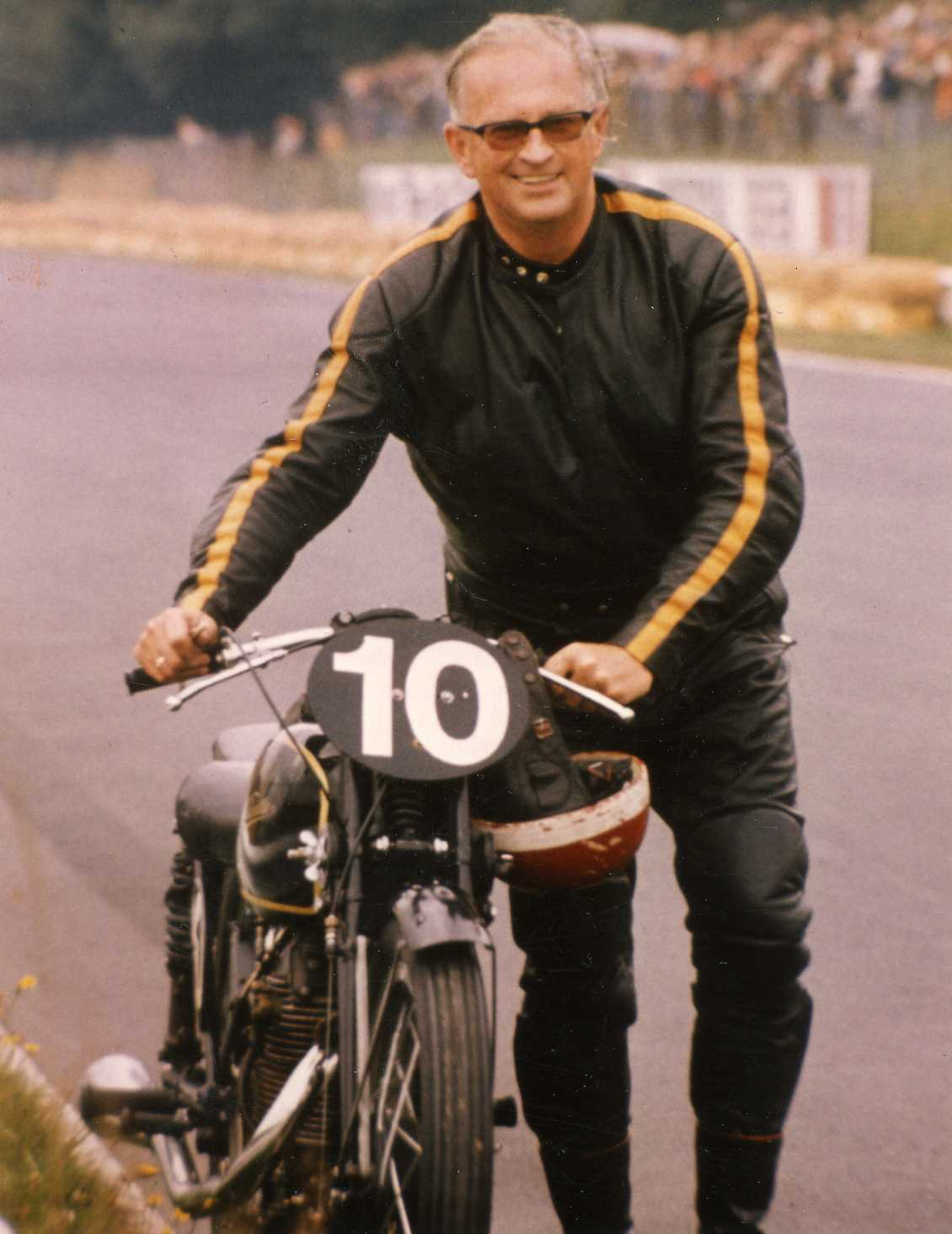 Helmut Krackowizer, 1980 at Hockenheim, Germany, on Velocett. Source: The Austrian Vintage Motorcycle-Literature- and Picture Archives Prof. Dr. Helmut Krackowizer. Author of text (not of picture!): Peter Krackowizer.